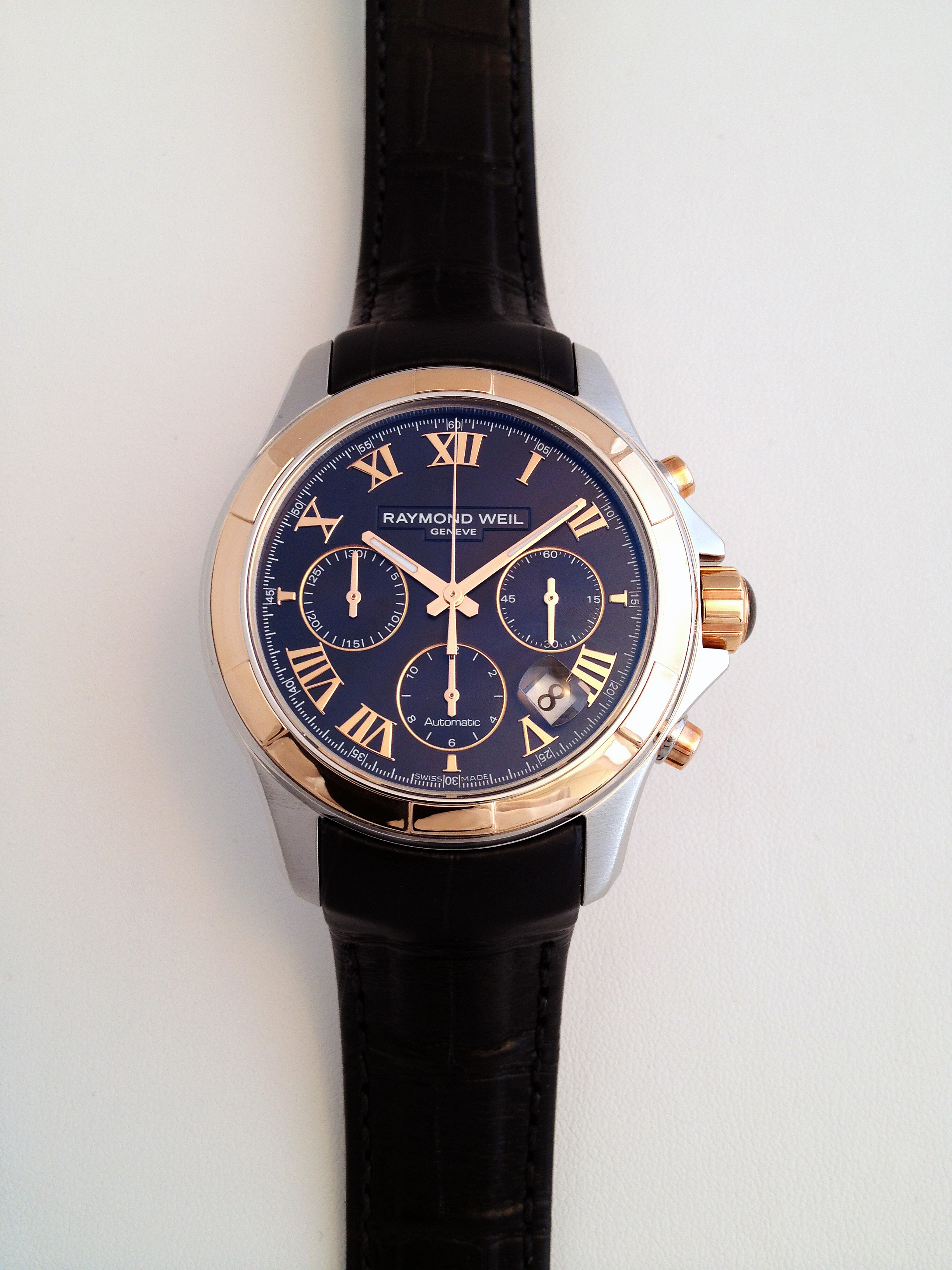 Parsifal 7260-sc5-00208 - Automatic chronograph -Two tone on leather strap